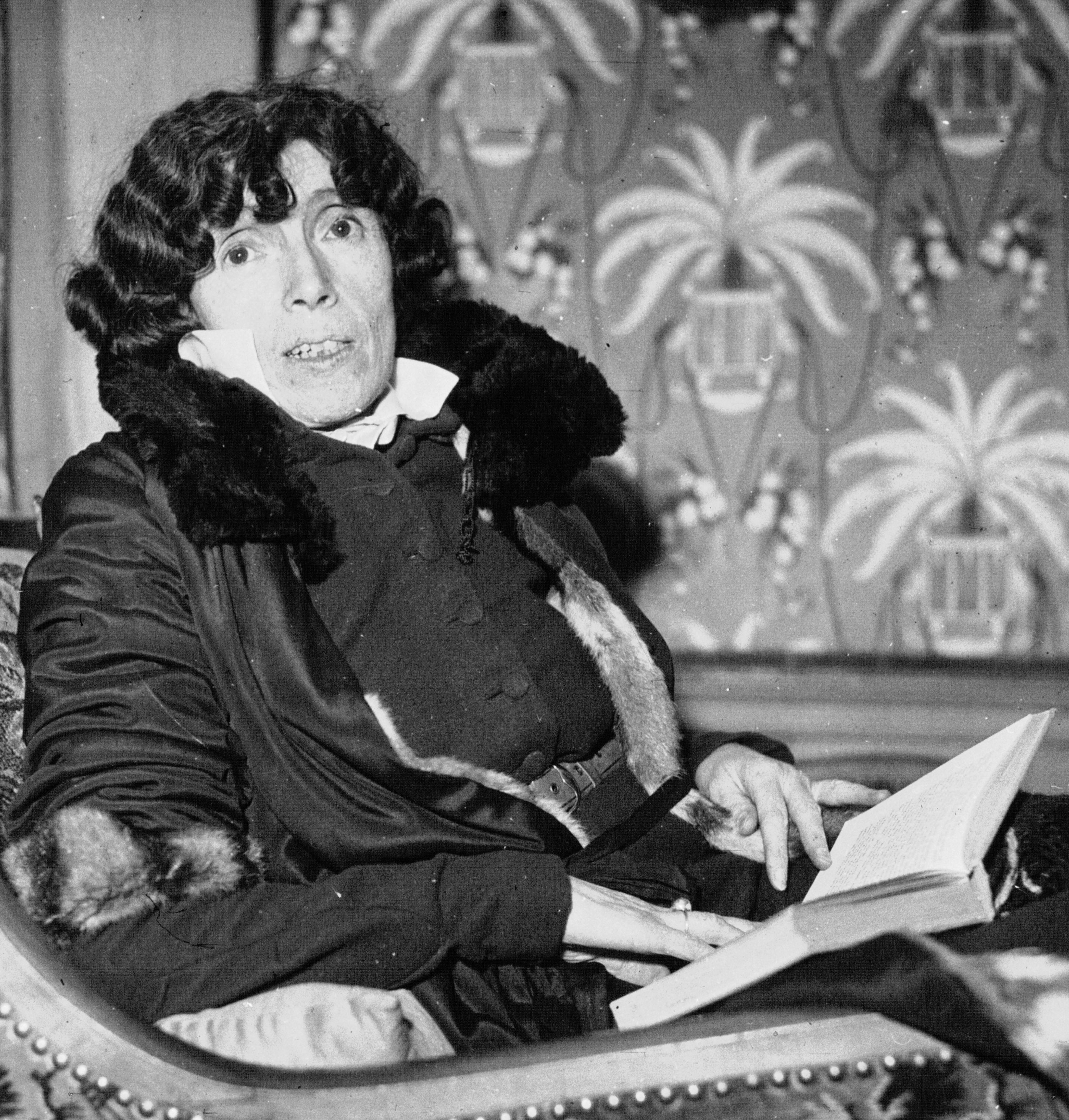 French writer, painter and illustrator Louise Hervieu (1878-1954).